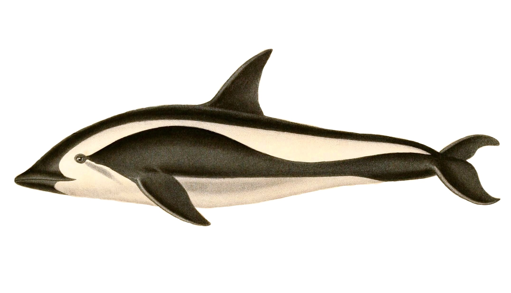 « Delphinus cruciger » = Lagenorhynchus cruciger (Hourglass dolphin)